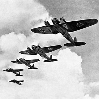 German Heinkel He 111s which went into service in 1937. Some 6000 Heinkel He 111s were built but were found to be a poor match for Hurricanes and Spitfires during the Battle of Britain.